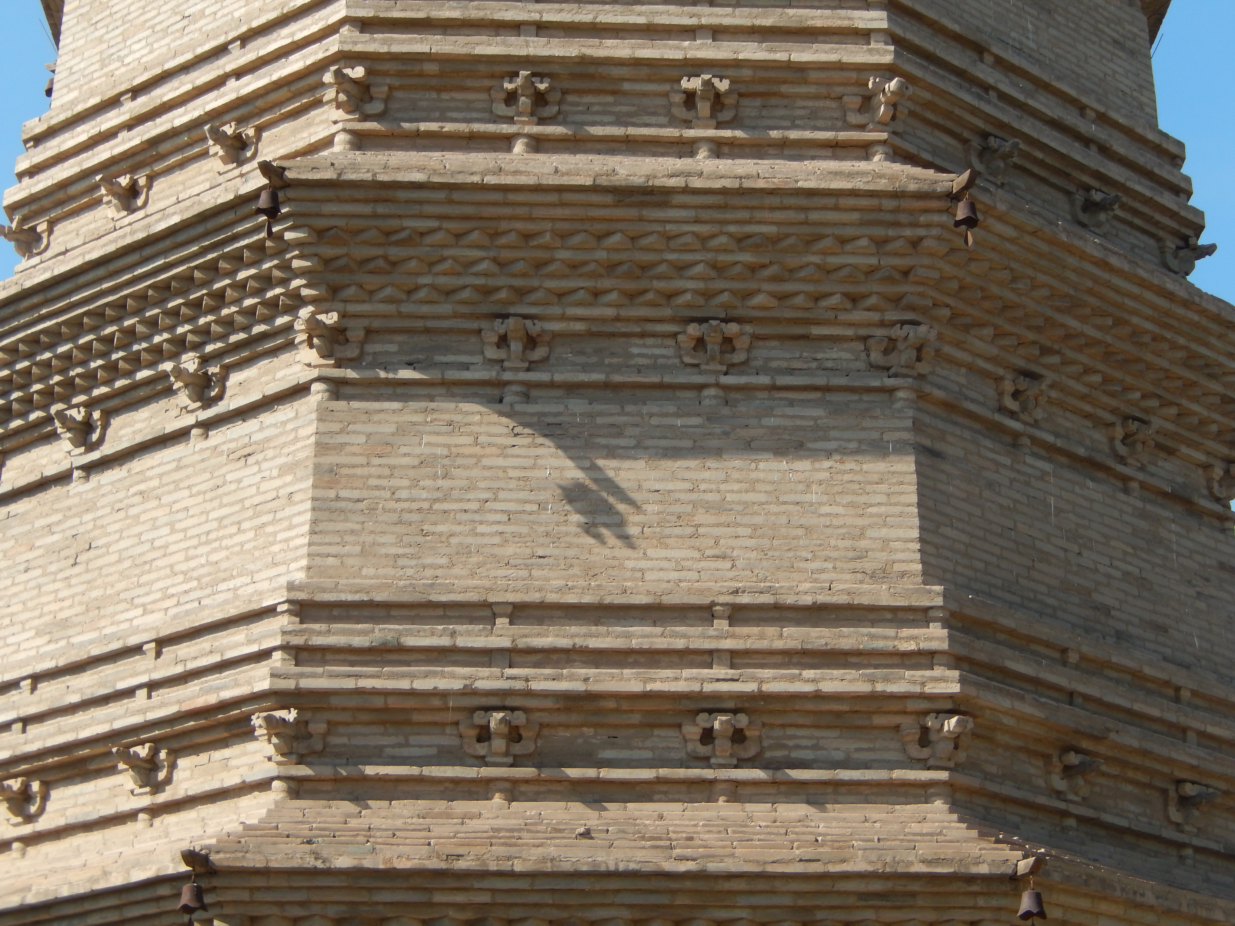 Detail of Hongfo pagoda (宏佛塔) in Helan County, Ningxia, China.